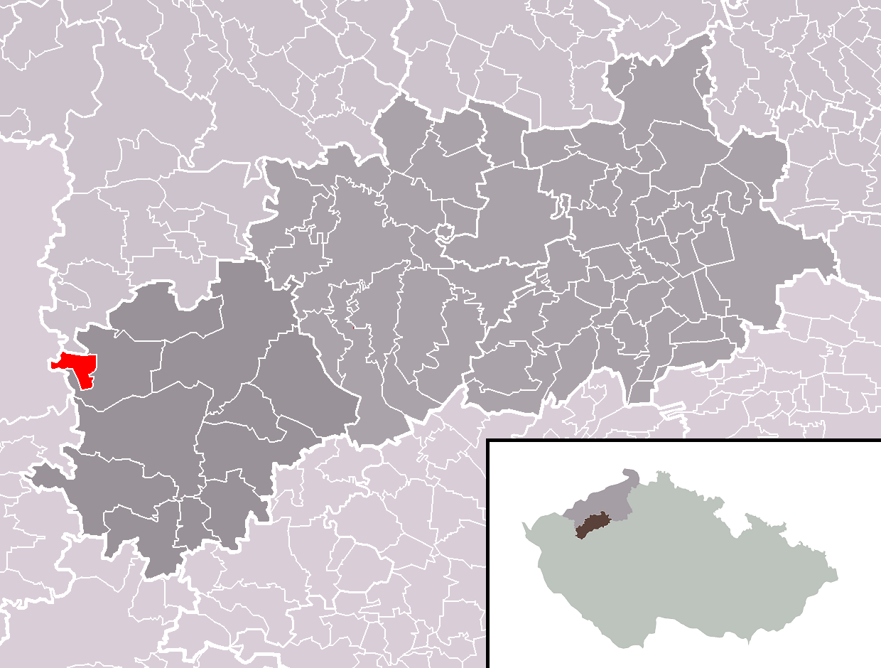 Location of Pobořanský Rohozec municipality within Louny District and administrative area of Podbořany as a Municipality with Extended Competence.